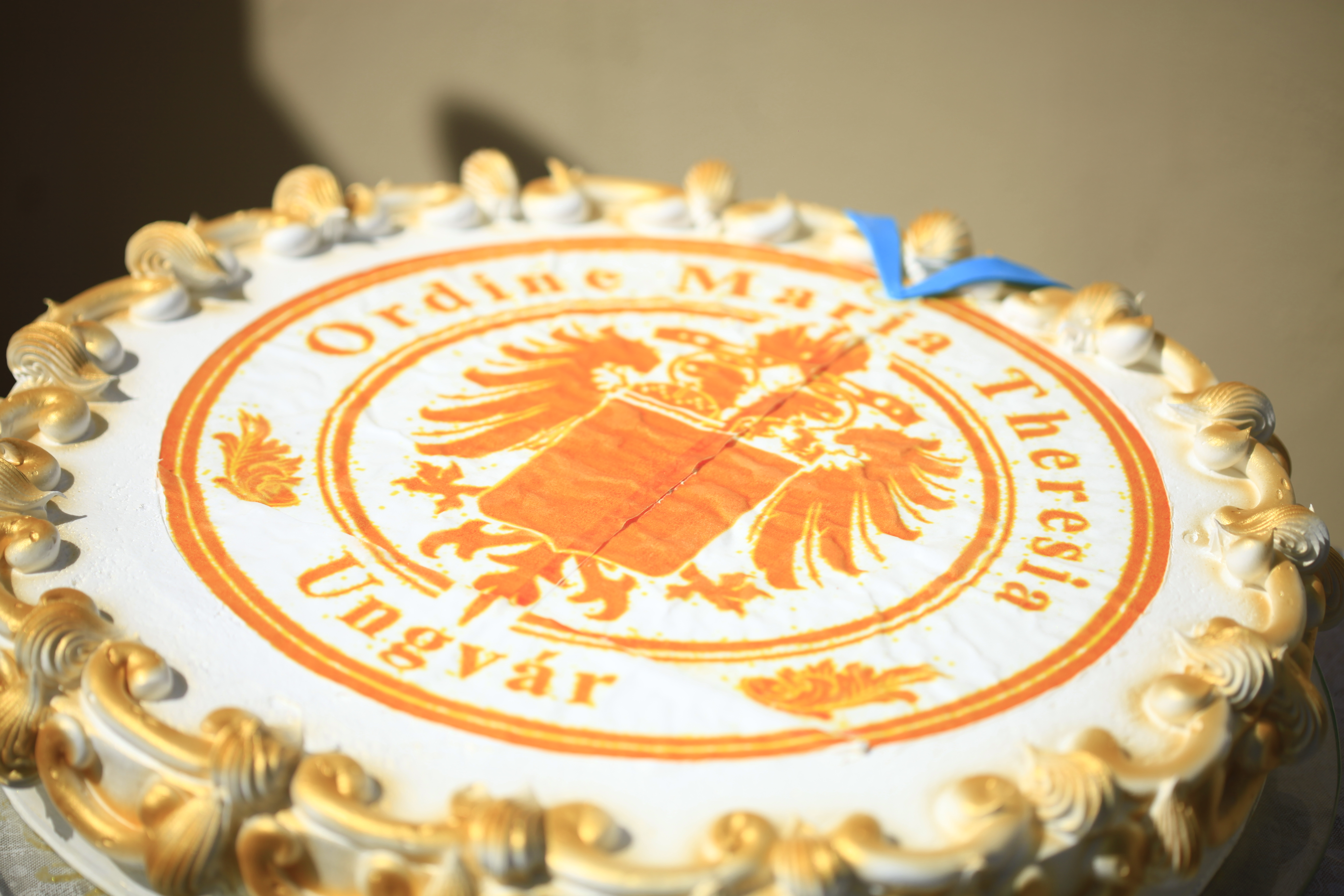 Order of Maria Theresia Torte